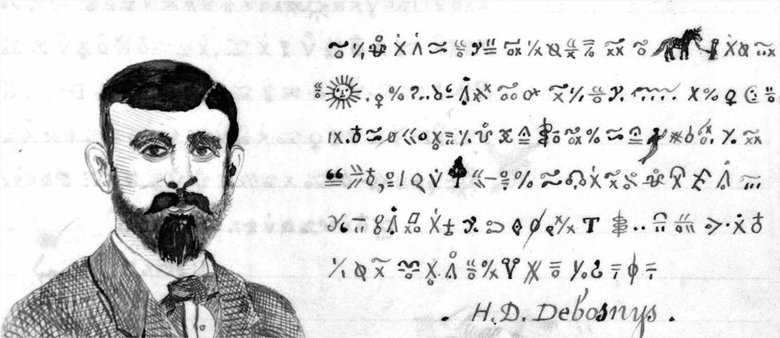 Cryptograms from Henry Debosnys (1836 - 1883)